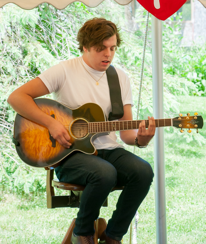 Alex Preston performing at the Daland Library in Mont Vernon, New Hampshire on June 6, 2015.